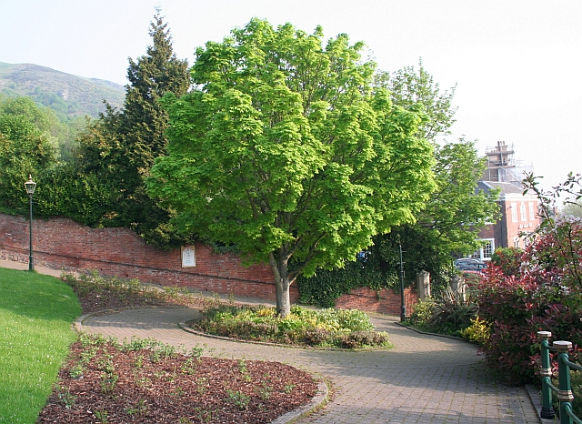 Charles and Diana Wedding Tree - Norway Maple Acer Platanoides. Planted in Rosebank Gardens close to the entrance, by the Chairman of Malvern Hills District Council, Councillor A.J. Morris on 30th July 1981 on behalf of the people of Malvern to commemorate the wedding of HRH The Prince of Wales and Lady Diana Spencer. North Hill is visible top left.